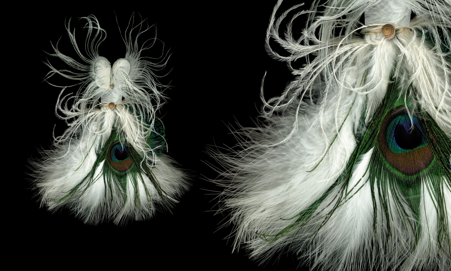 Image of couture dress made of peacock feathers; used in the bestselling Fairie-ality book series by David Ellwand